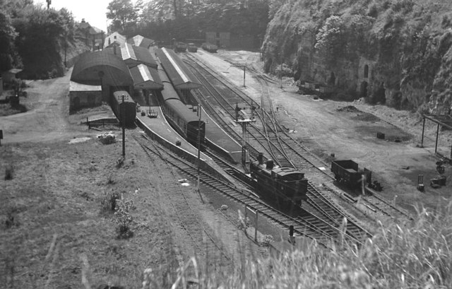 Ventnor railway station Original description: Ventnor Station A general view of Ventnor Station, taken from St. Boniface Down. Class "O2" locomotive number 14 is preparing to couple to a Ryde train.